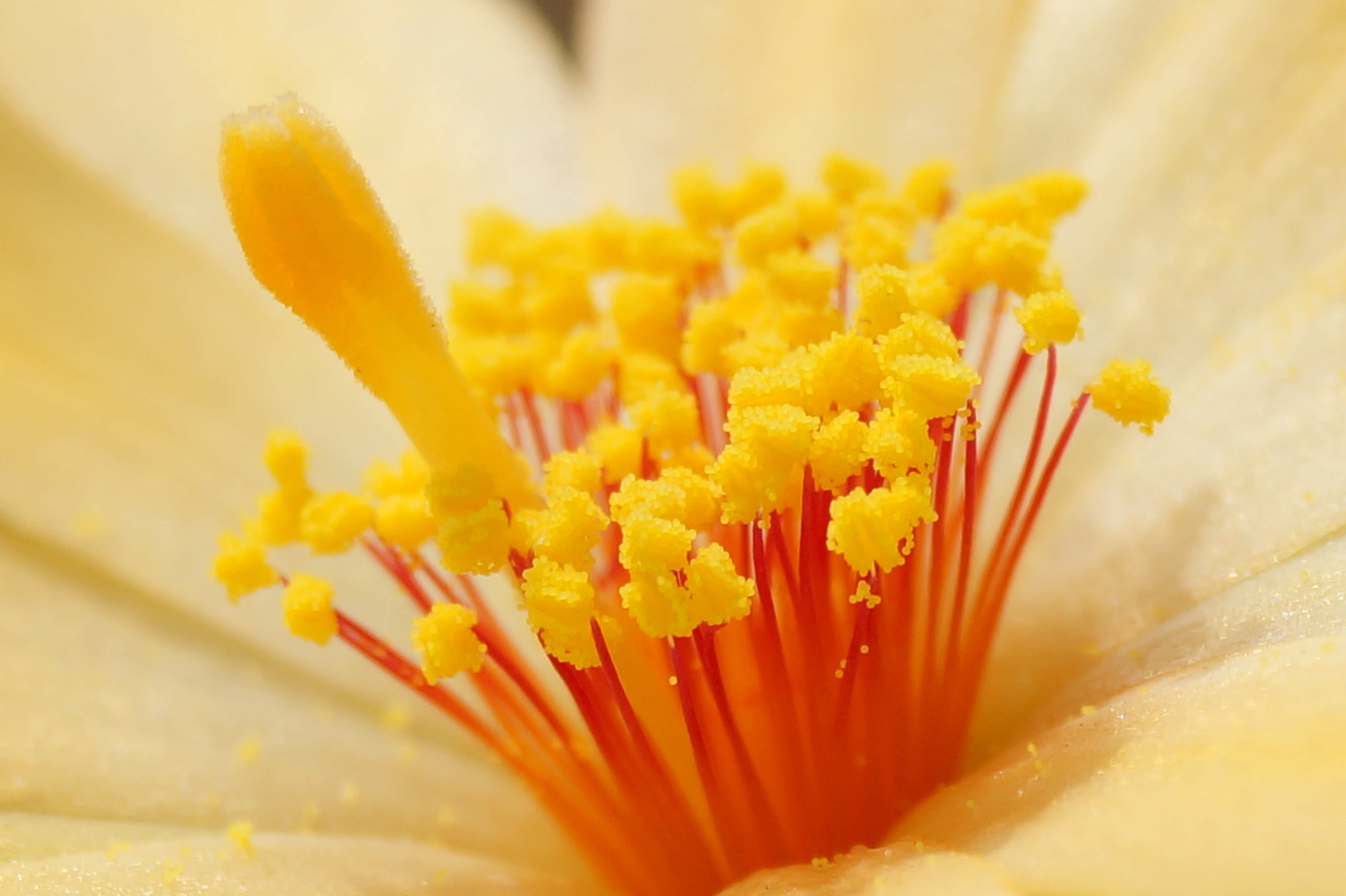 close up view of the stamen of Fish hook Cactus